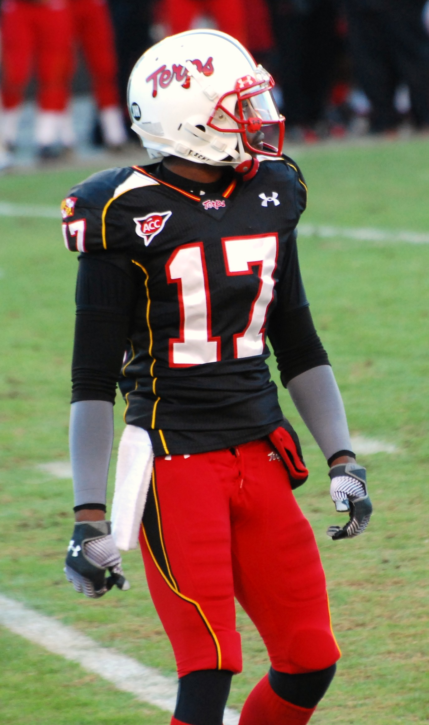 Quintin McCree of the University of Maryland Terrapins against Boston College.